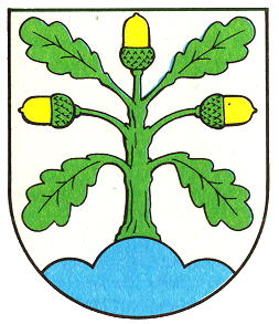 Coat of Arms of Pretzsch, Part of Bad Schmiedeberg